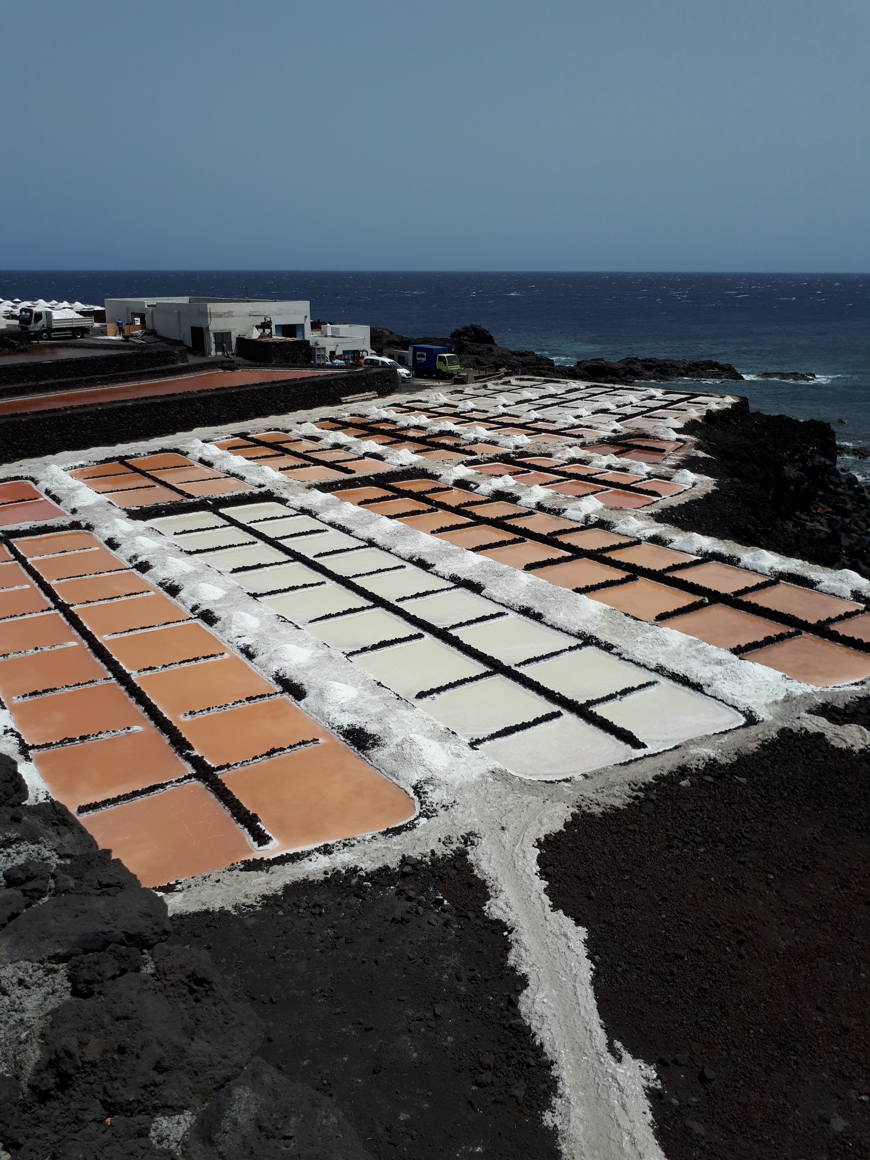 Part of the Fuencaliente Saline with technical building